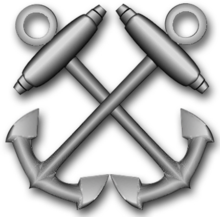 US Navy Boatswain's Mate (BM). Crossed anchors; crowns down.